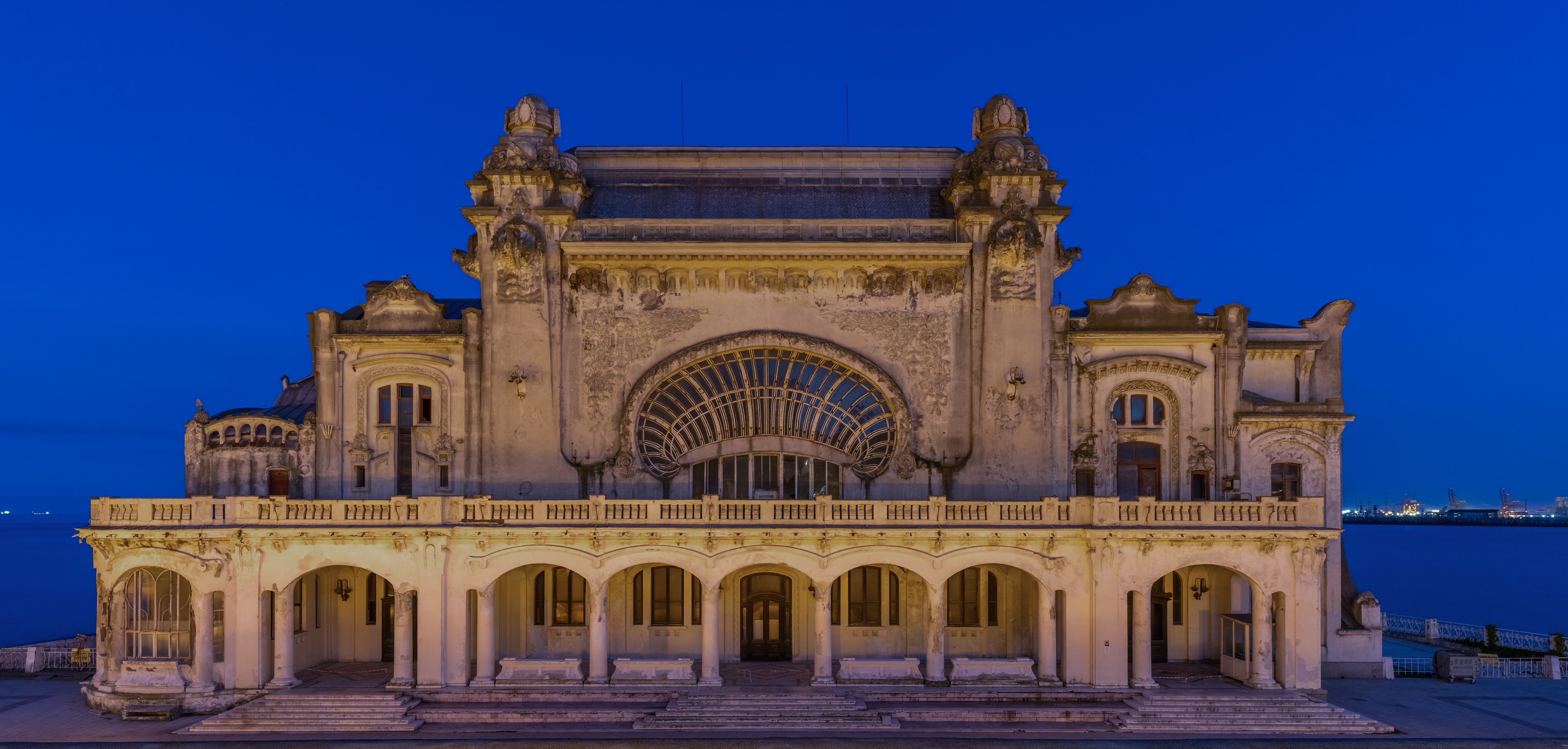 Blue hour view of the Constanța Casino, a casino located directly in front of the Black Sea in Constanța, Romania. The building, listed as historic monument by Romania's Ministry of Culture and Religious Affairs, is considered a symbol of the city and it was built in Art Nouveau style according to the plans of Daniel Renard and inaugurated in August 1910.